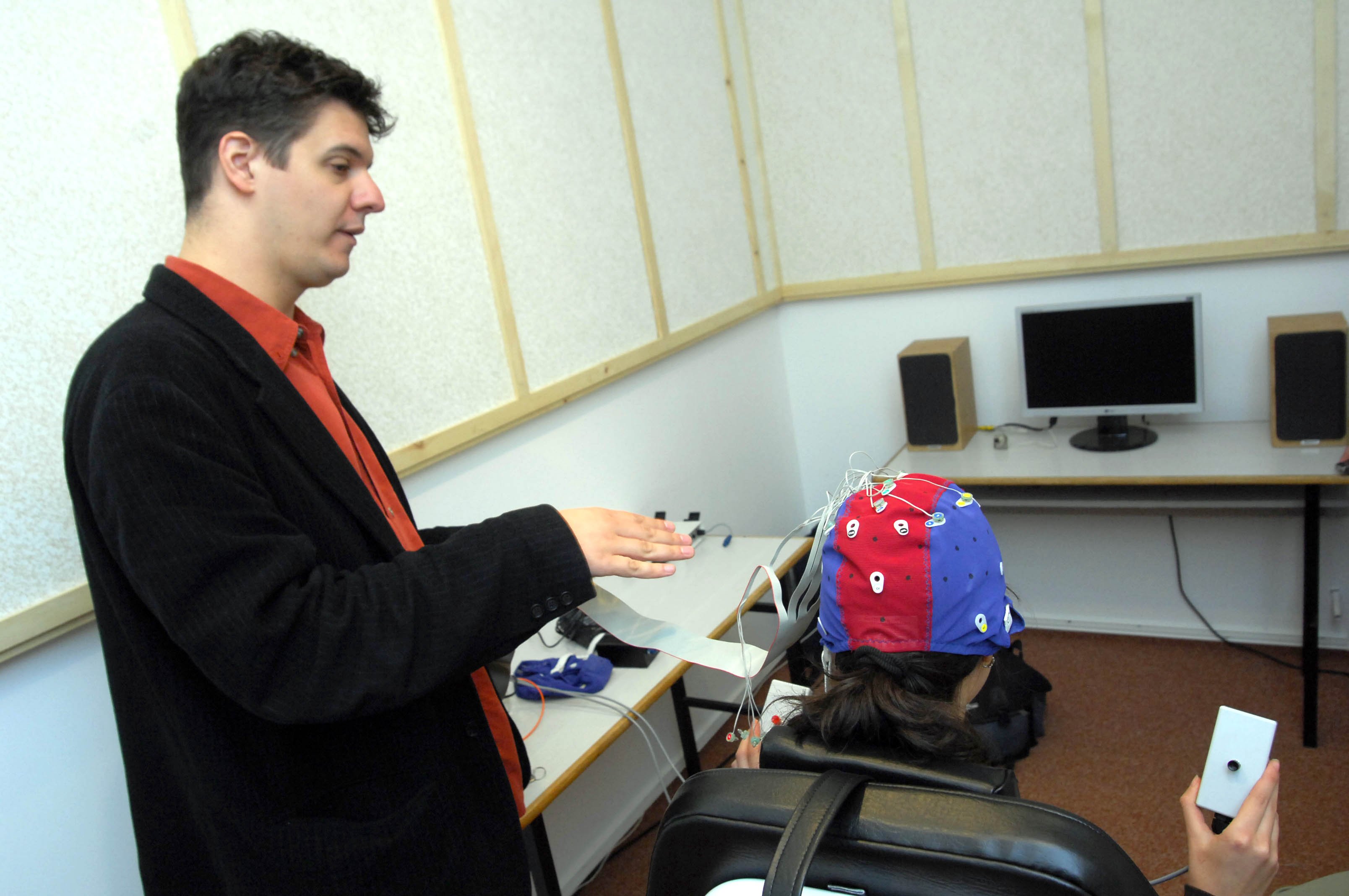 Institut of Psychology Szeged EEG Laboratory photo 1.